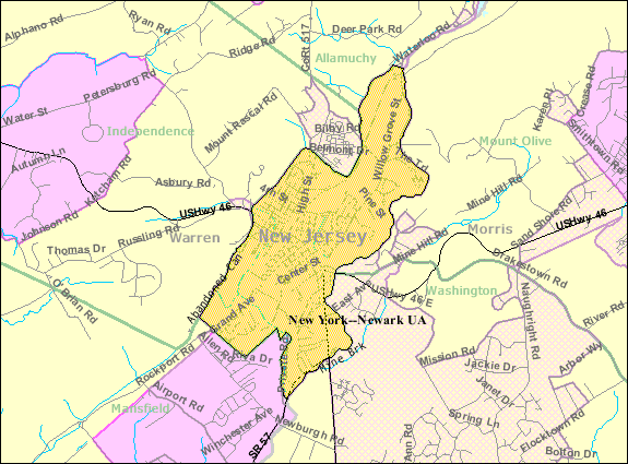 Census Bureau map of Hackettstown